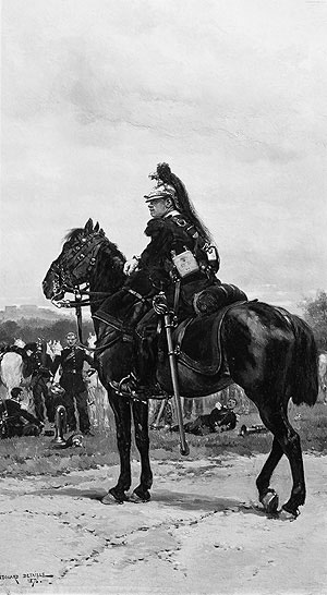 Black and white artwork titled A Dragoon on Horseback by Edouard Detaille.